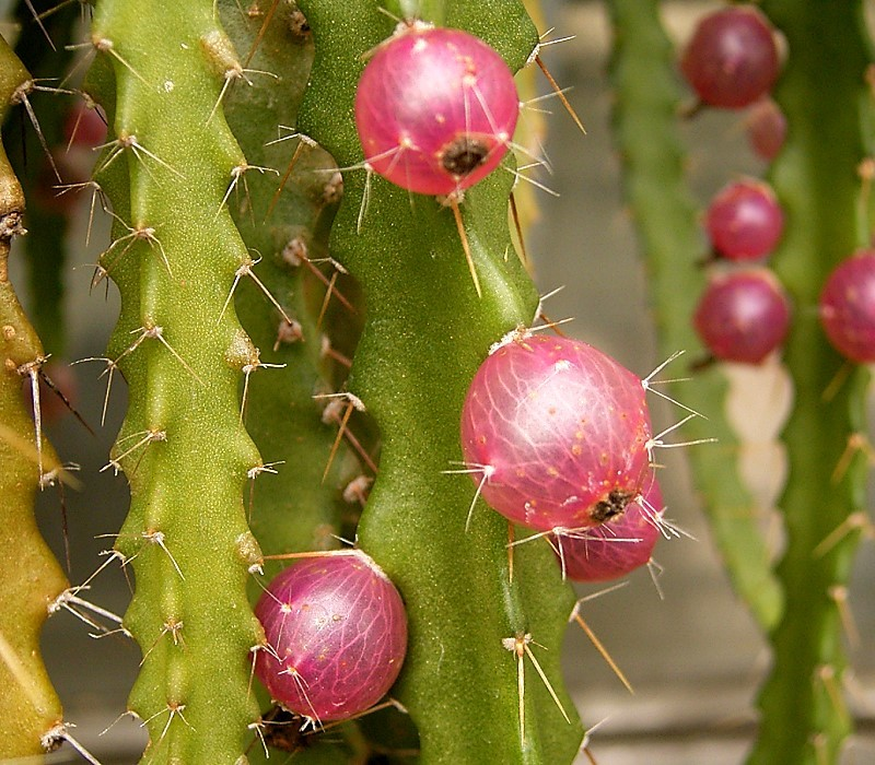 Lepismium ianthothele